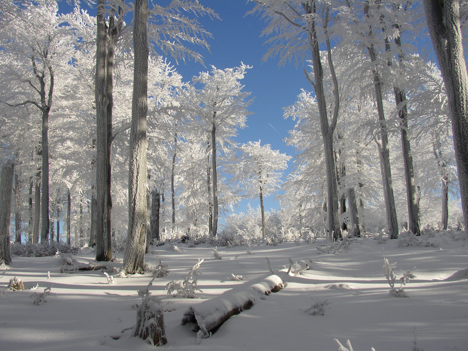 Summit of the Finkenkoppe in winter, Czech Republic